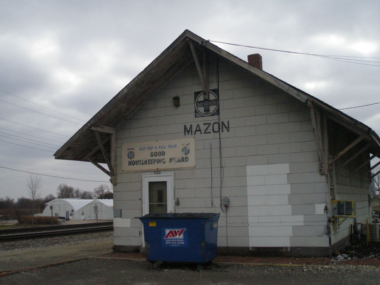 The old Santa Fe station in Mazon, Illinois, now used for MoW crews.